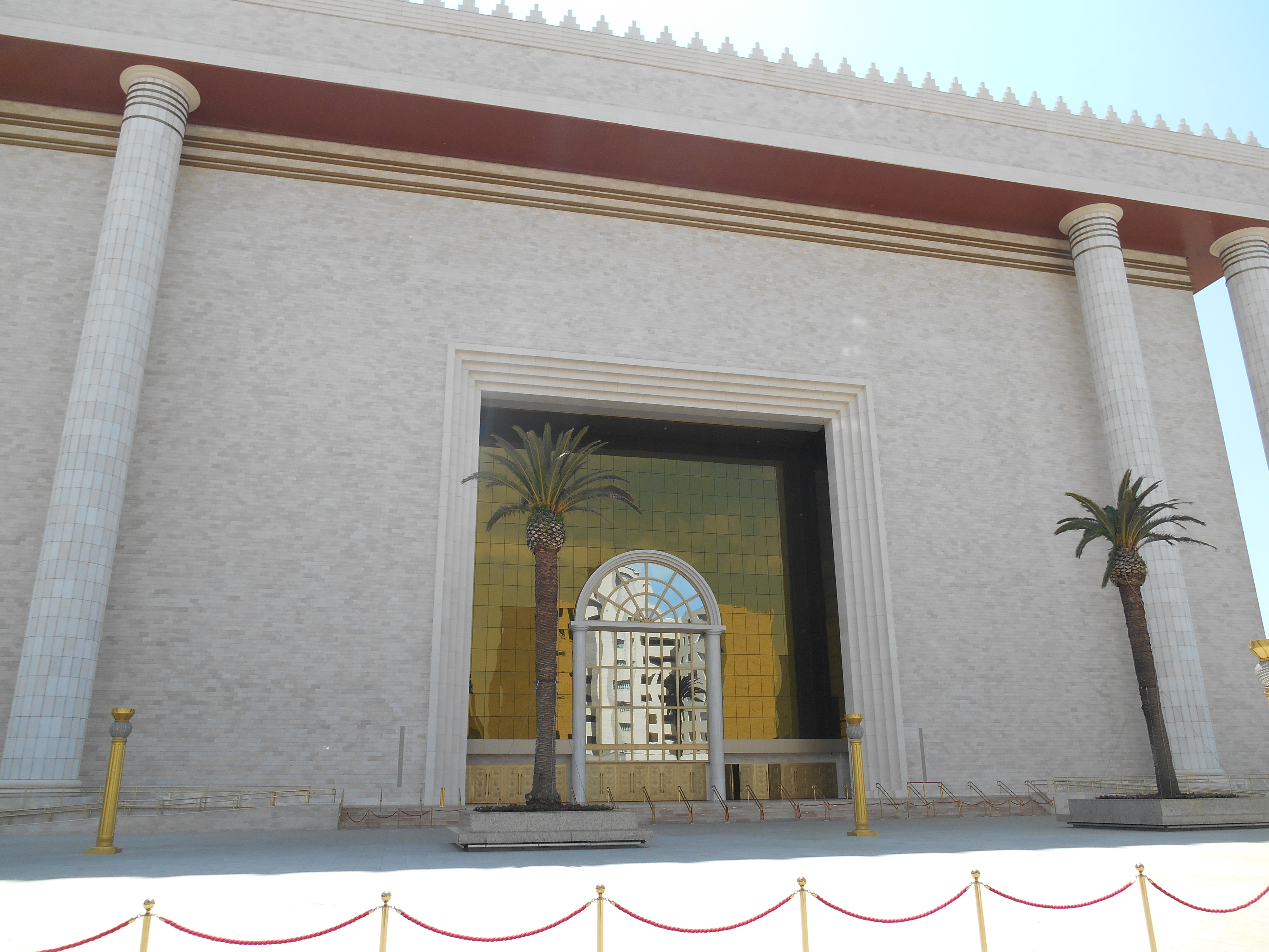 Salomon Temple in São Paulo, Brazil.